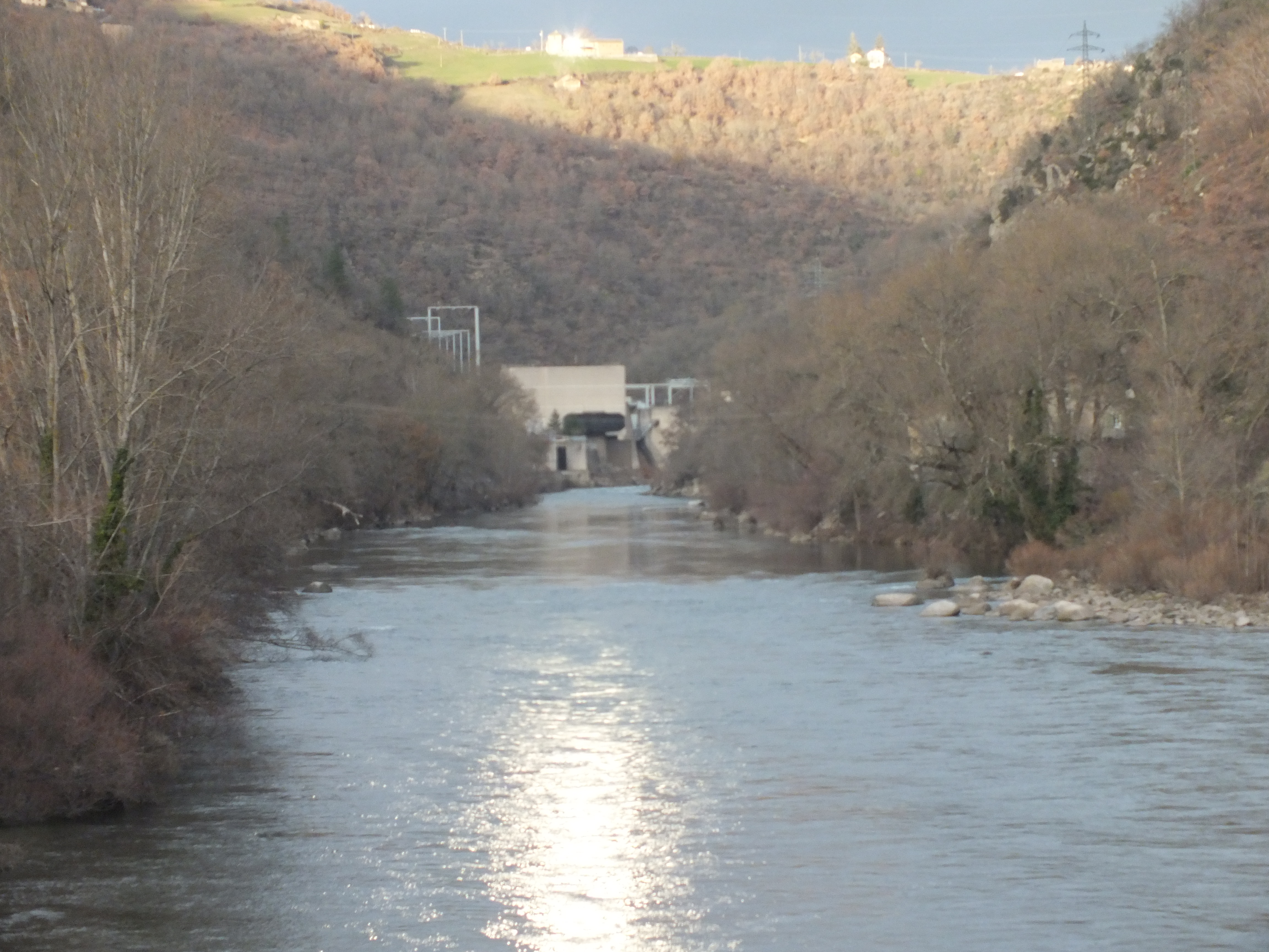 The Tarn (river) at Le Truel, Aveyron, France. The barrage du Truel, and the 22MW Le Truel (power station) with the buildings of the 525MW Le Pouget (power station) to the left.